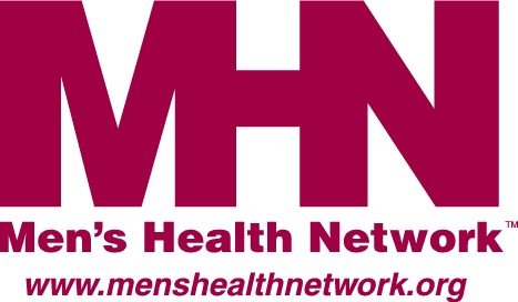 Men's Health Network logo